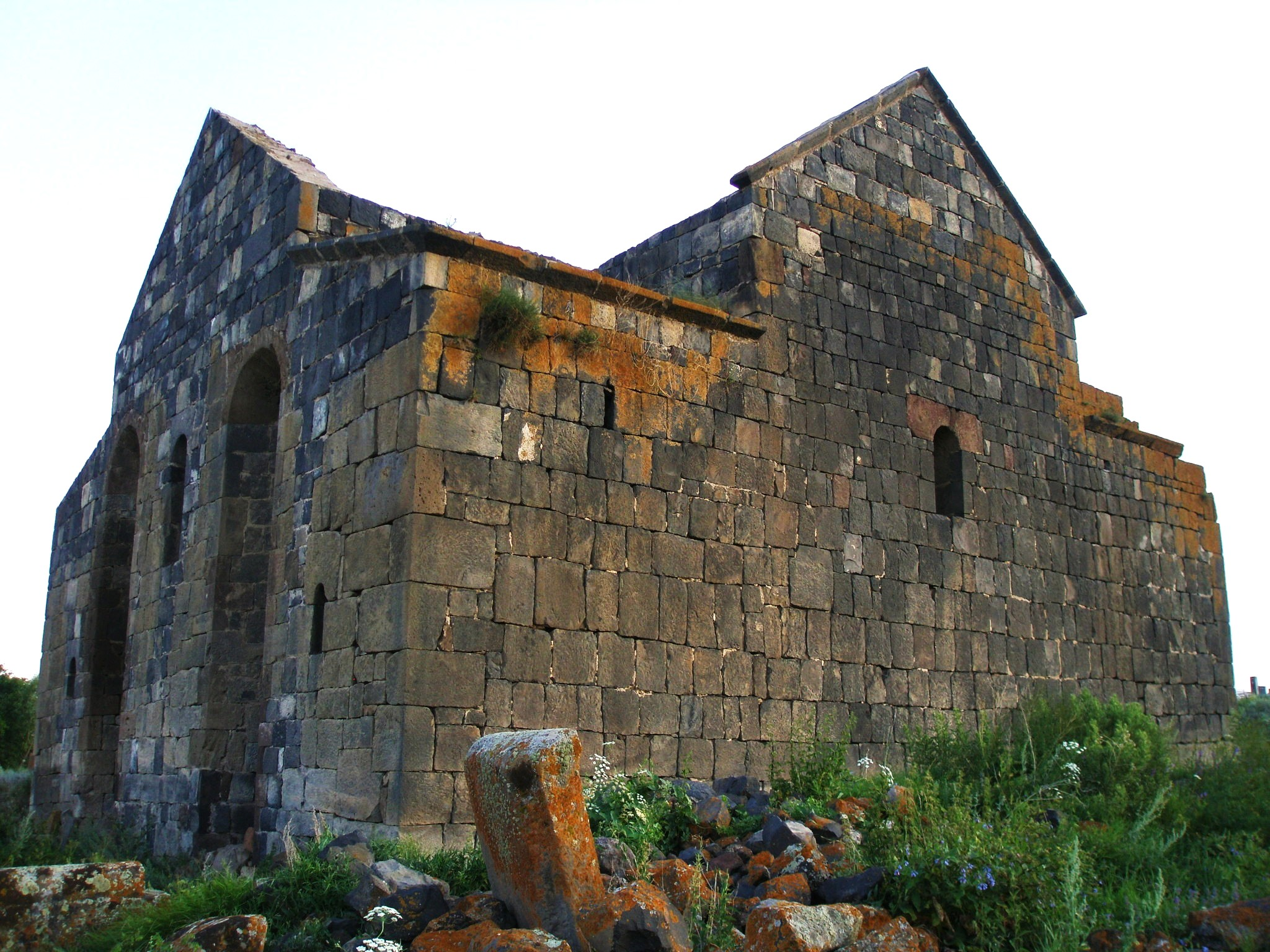 Kotavank